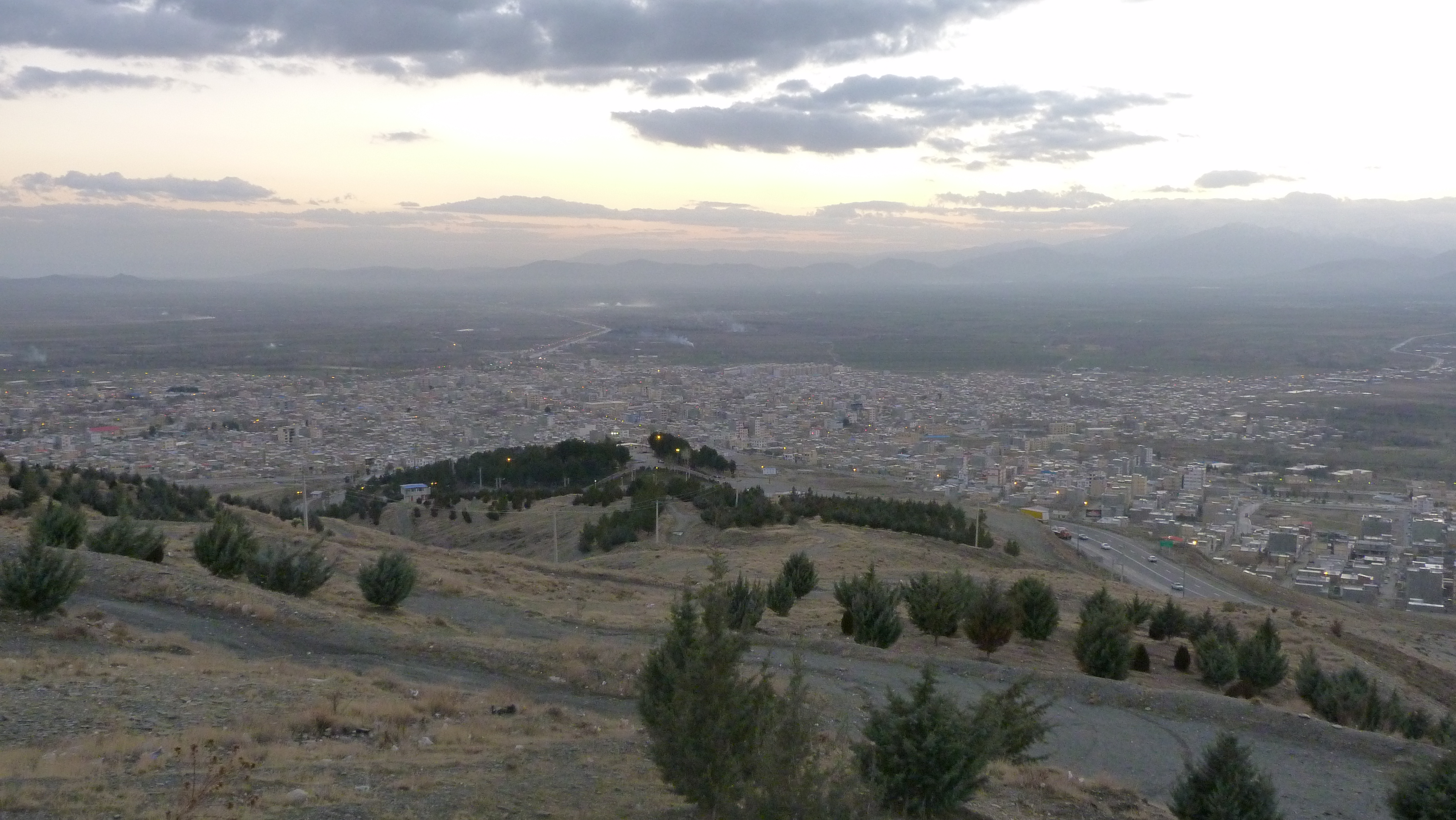 Asadabad city from top view